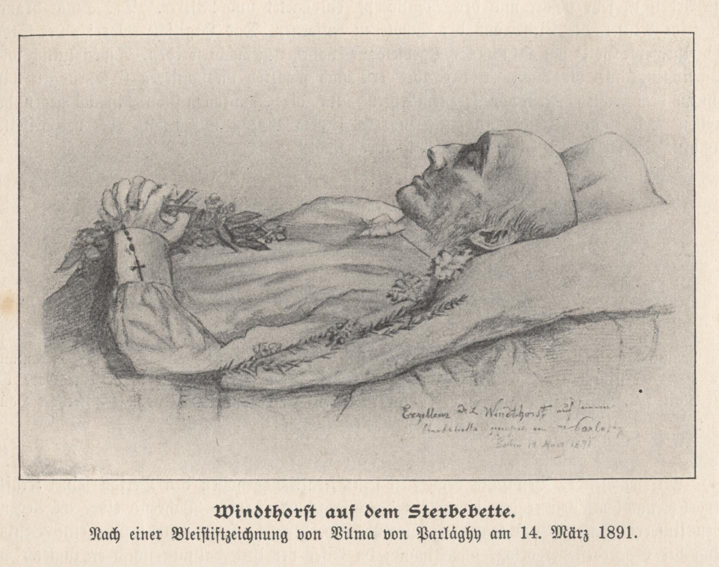 Ludwig Windthorst german politician after death